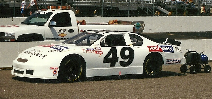 Robbie Faggart's No. 49 Rent-A-Wreck/Jay Robinson Racing Chevrolet at New Hampshire Motor Speedway before the CVS Pharmacy 200, May 12, 2001.